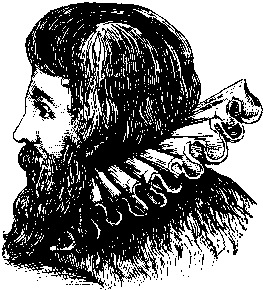 Roger Ascham - Project Gutenberg eText 12788 The Project Gutenberg EBook of Library Of The World's Best Literature, Ancient And Modern, Vol. 2, by Charles Dudley Warner Roger Ascham